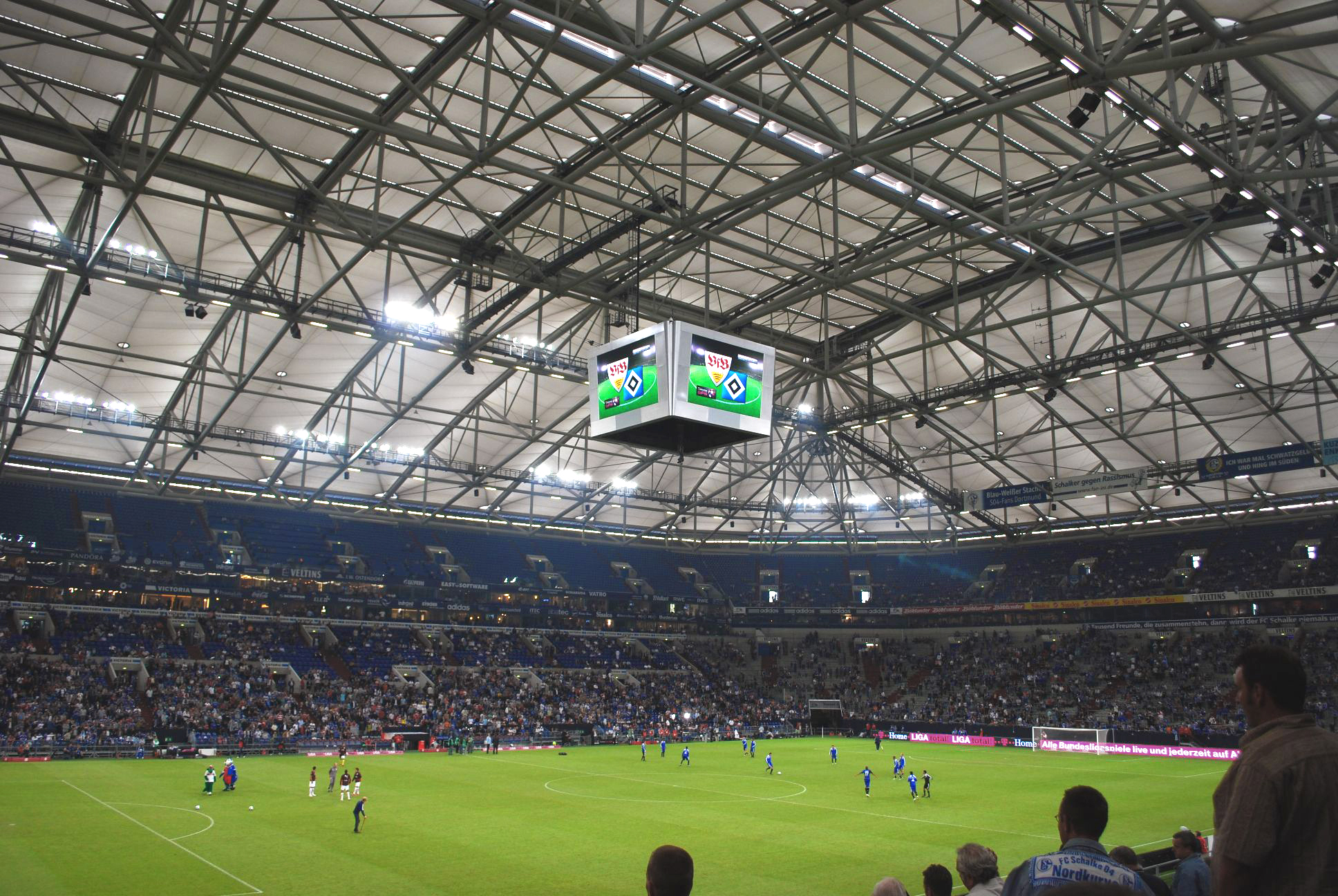 Veltins-Arena during the T-Home Cup 2009.